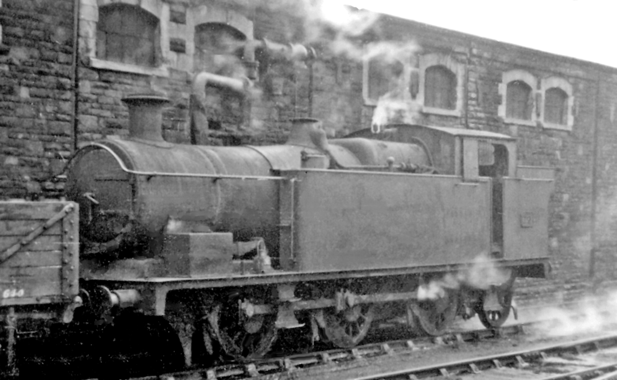 Ex-Rhymney Railway 0-6-2T at Neath General. Seen from the station platform on the ex-GWR South Wales main line passing on an Up goods, is one of the numerous locomotives taken over by the GWR at Grouping from the several independent Railways of South Wales and 'Swindonized', ex-Rhymney Railway Class 'P' 0-6-2T No. 75 (built as RR No. 119 7/1910, withdrawn 10/53). [One of my earlier photographs].